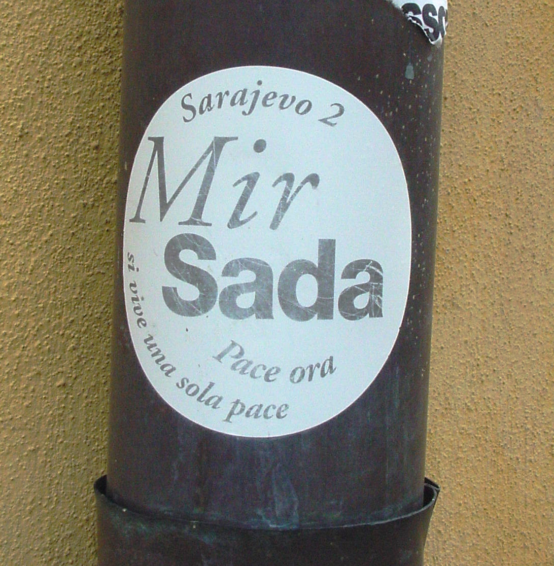 photo of a sticker of Mir Sada (i.e peace now) action applied on urban hardware